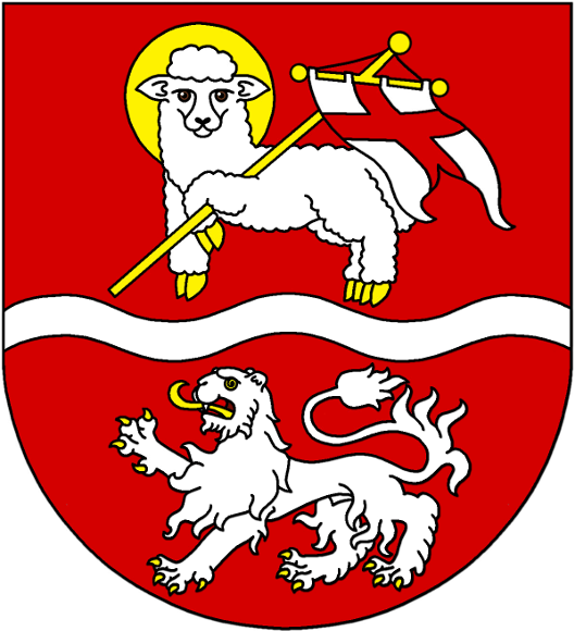 Coat of arms of Zdislava municipality, Liberec District, Czech Republic